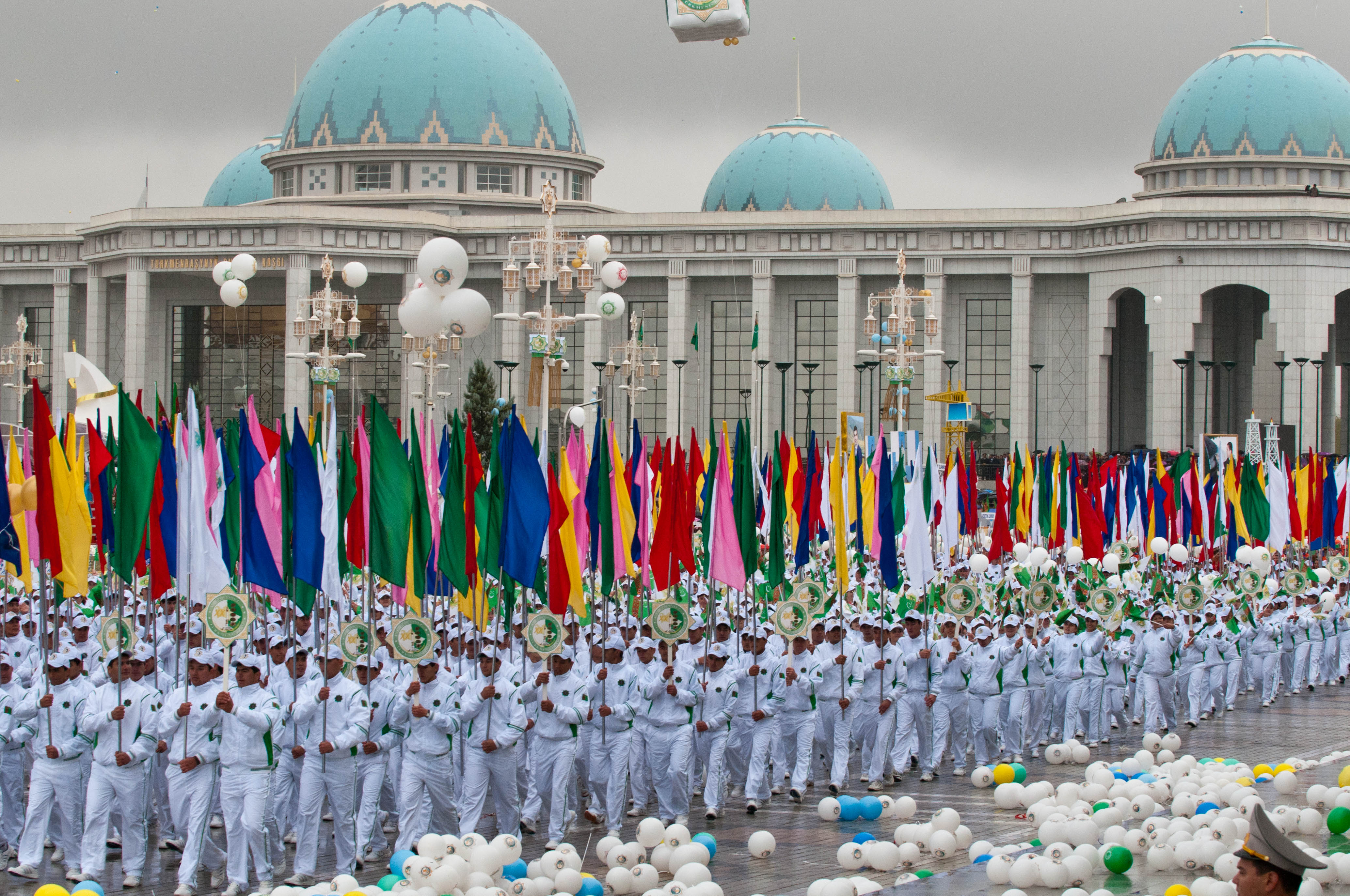 Celebrating the 20th year of independence in Turkmenistan